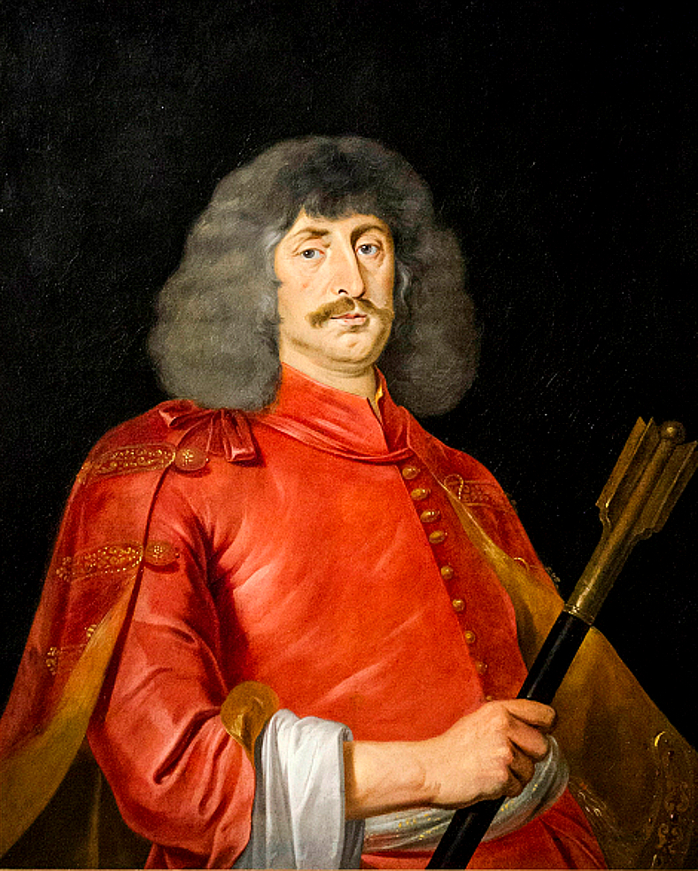 Portrait of Nikola Zrinski, Ban (Viceroy) of Croatia, military commander–in–chief and poet (1620–1664)